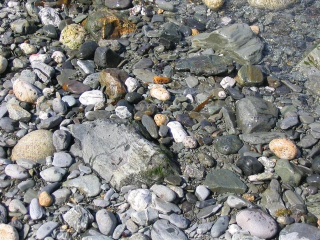 The interesting mix of granite and other pebbles peculiar to Lundy, an island in the Bristol Channel, off the coast of Devon, England